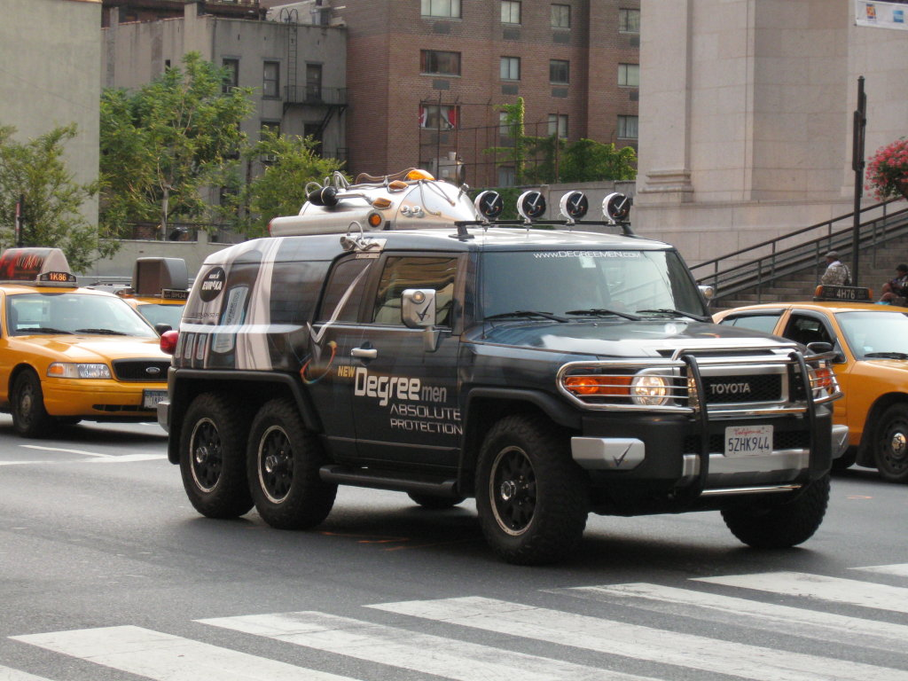 Toyota FJ Cruiser with a third axle in New York City.